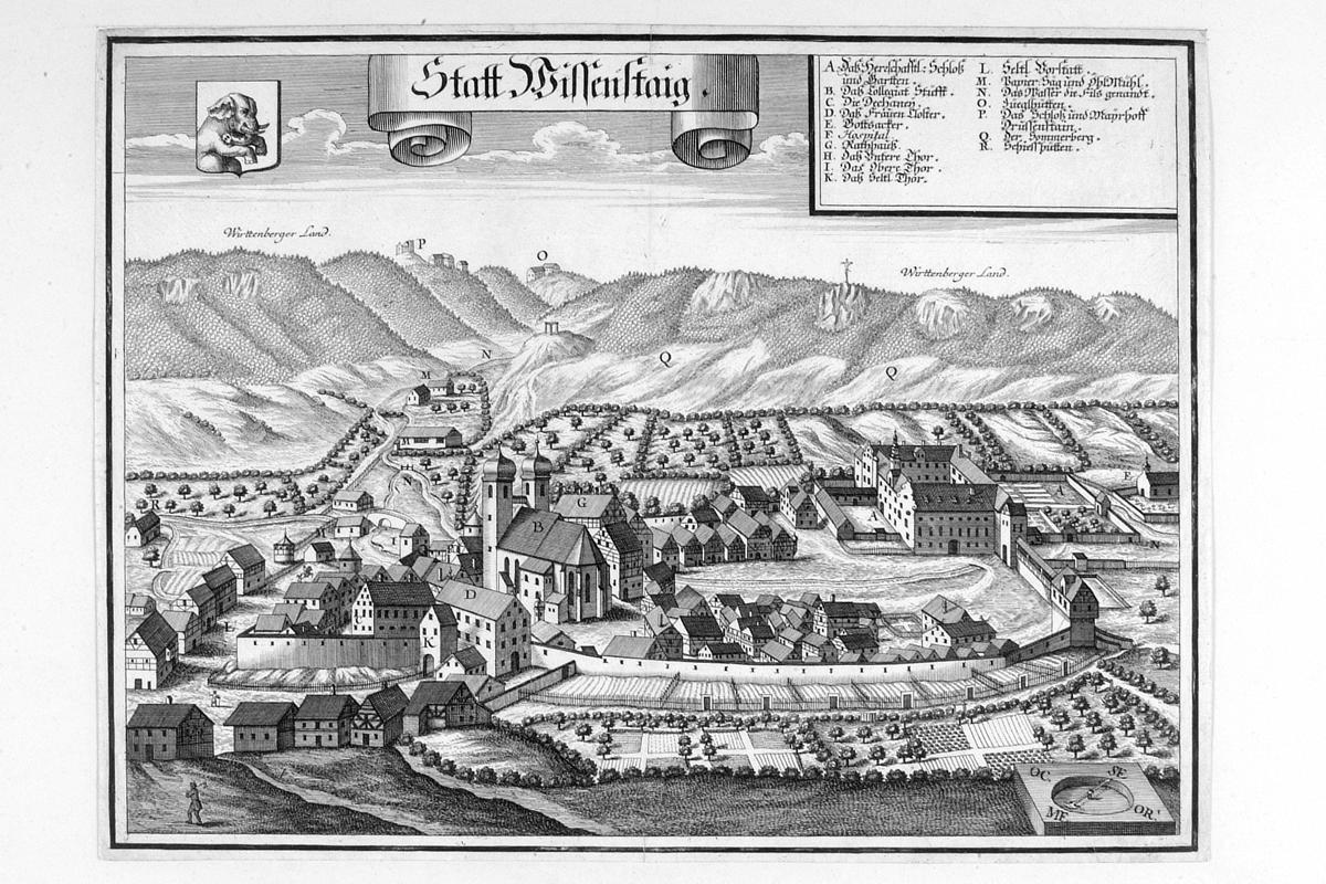 View of Wiesensteig, Germany, approx. 1700